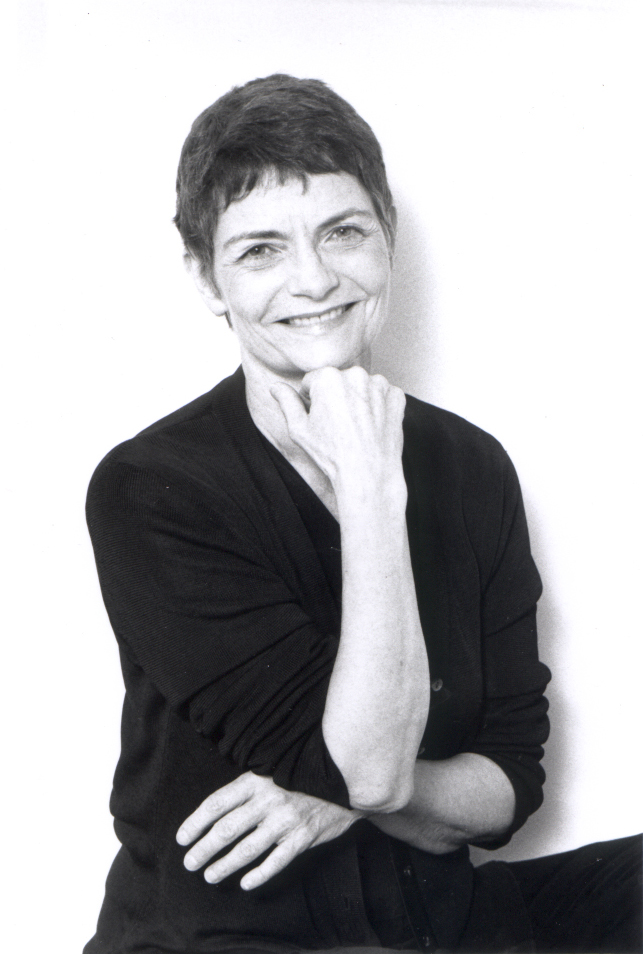 Black and white photograph of US poet Stephanie Strickland. The photo was taken by Star Black.